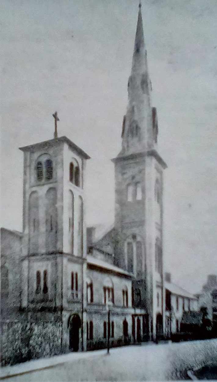 St Andrew's Catholic Cathedral, Dumfries, 19th century view